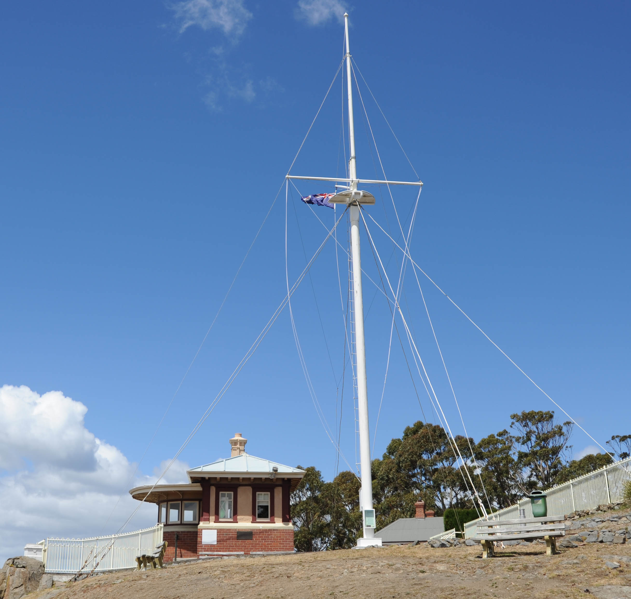 Mt Nelson Signal Station - Tasmania, Australia